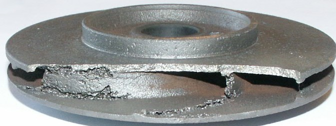 Kavitation damage at pump impeller